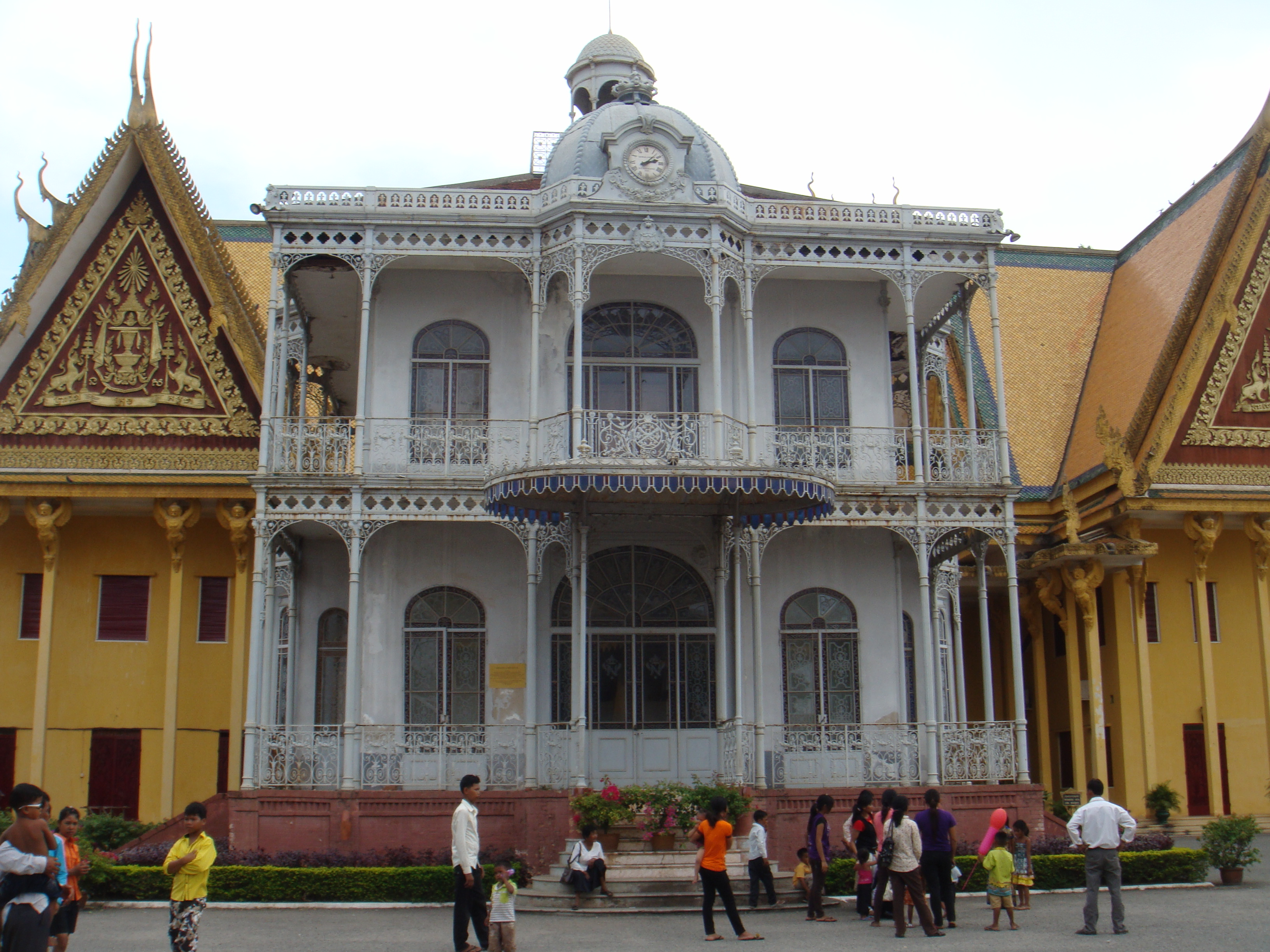 Napoleon Pavilion at the Khmer Royal Palace